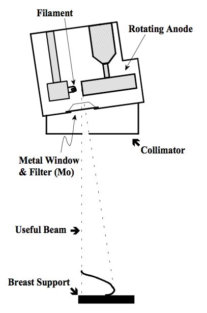 Mammography XRT with collimation and breast support.